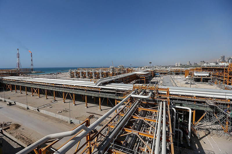 South Pars Onshore Facilities near Asaluyeh City.